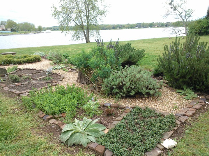 Herb garden of Rock Castle in Hendersonville, Tennessee, USA, with Old Hickory Lake in the background.